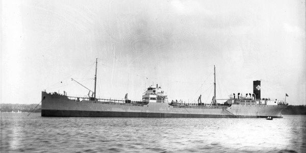 Norwegian motor tanker M/T Nina Borthen in 1930.